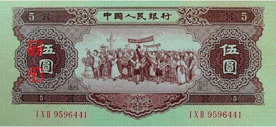 Front of second series 5 yuan renminbi (version 2)